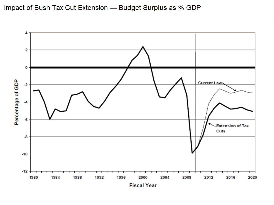 Impact of permanent Bush tax cut extension including estate tax Overview Permanent extension of the Bush tax cuts adds about 2% of GDP to the deficit. The following two quotes are included in a September, 2010 Congressional Research Service(CRS) report:[1] "Figure 5 displays the trend in federal deficits as a percentage of GDP from 1980 to 2020. Under current law the federal deficit is projected to decline from 9.2% of GDP in 2010 to 3% of GDP by 2020. If all the Bush tax cuts are permanently extended (including the repeal of the estate tax) the deficit is projected to be 5.1% of GDP in 2020 and on a clearly unsustainable path of increasing deficits. Neither of the projections take into consideration likely annual changes to the alternative minimum tax (AMT), with a projected 10-year cost of about $1,500 billion." "The Bush tax cuts are scheduled to expire at the end of 2010, and the tax parameters revert back to their 2000 values (the current law baseline). Some policymakers have proposed to permanently extend the Bush tax cuts. CBO estimates that permanently extending the tax provisions of EGTRRA and JGTRRA would increase the deficit by $1,215 billion over five years and by $3,312 billion over 10 years."